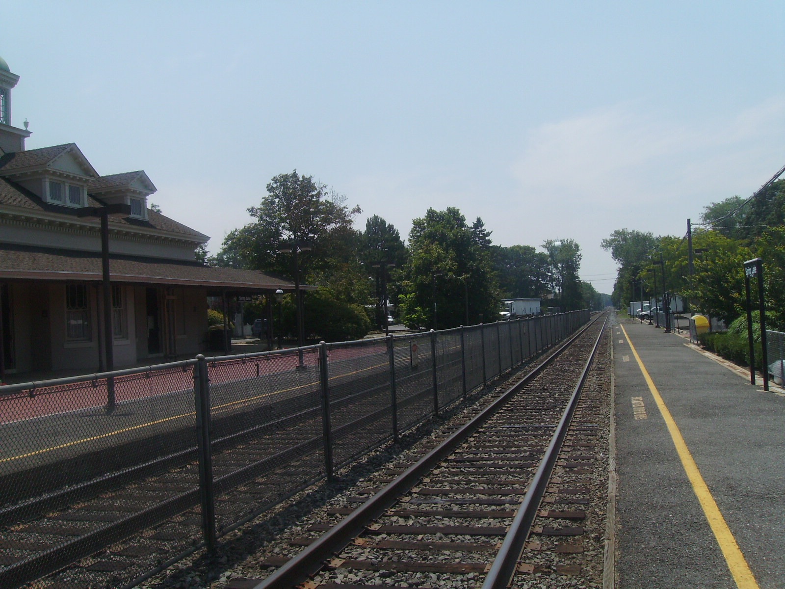 Spring Lake station for New Jersey Transit's North Jersey Coast Line in Spring Lake, New Jersey and Spring Lake Heights, New Jersey. The former Central Railroad of New Jersey station depot is visible.